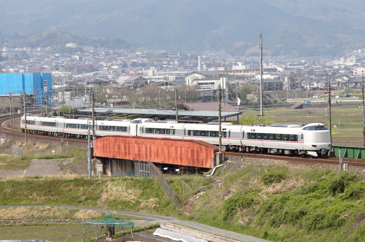 JR West 287 series EMU formation running as a combined Maizuru (front 3 cars) and Kinosaki (rear 4 cars) service on the Sagano Line